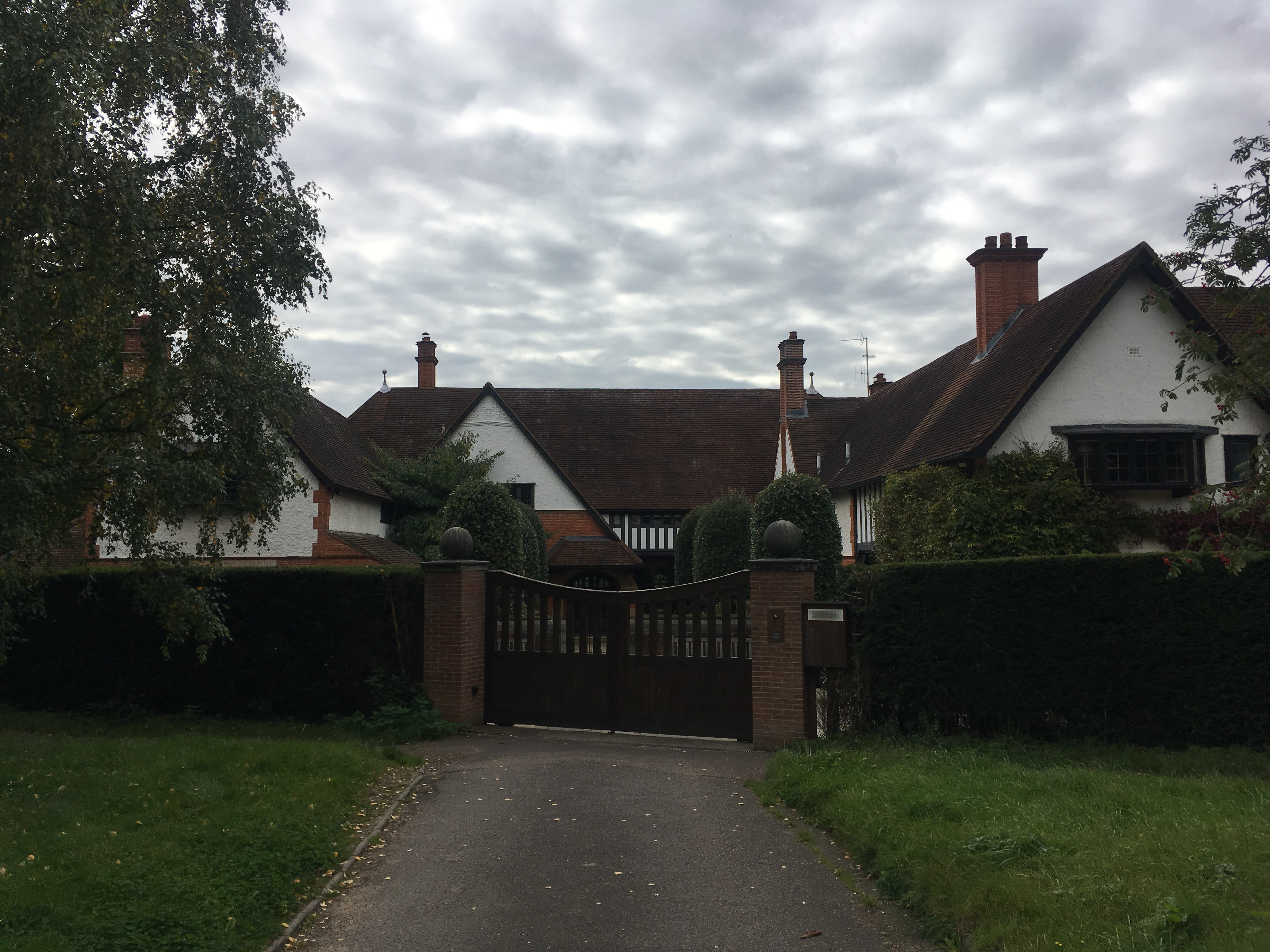 The Croft Wikidata has entry Q27085911 with data related to this item.